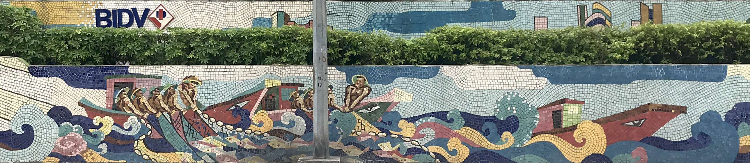 Hanoi Ceramic Mosaic Mural